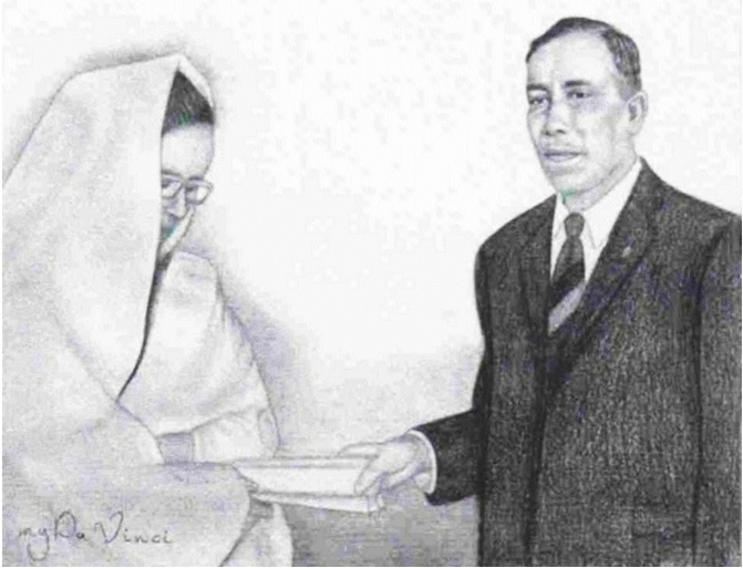 The sketch is intended to be a part of Biography on Khuda Buksh